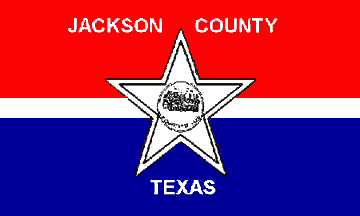 Flag of Jackson County, Texas, adopted in 1986.